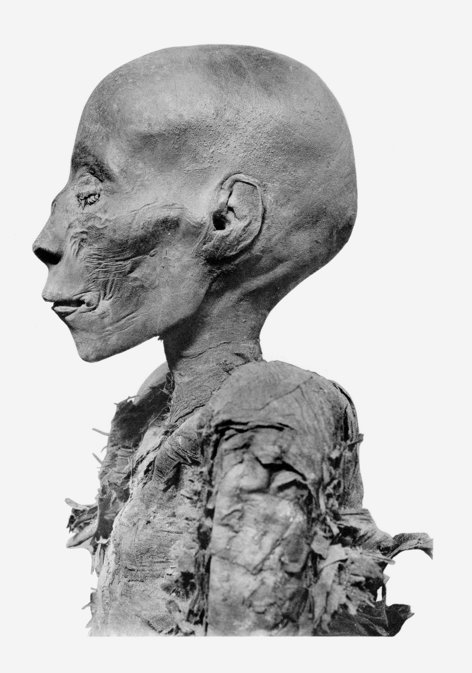 Head of mummy of parapoh Thutmose I (profile view).